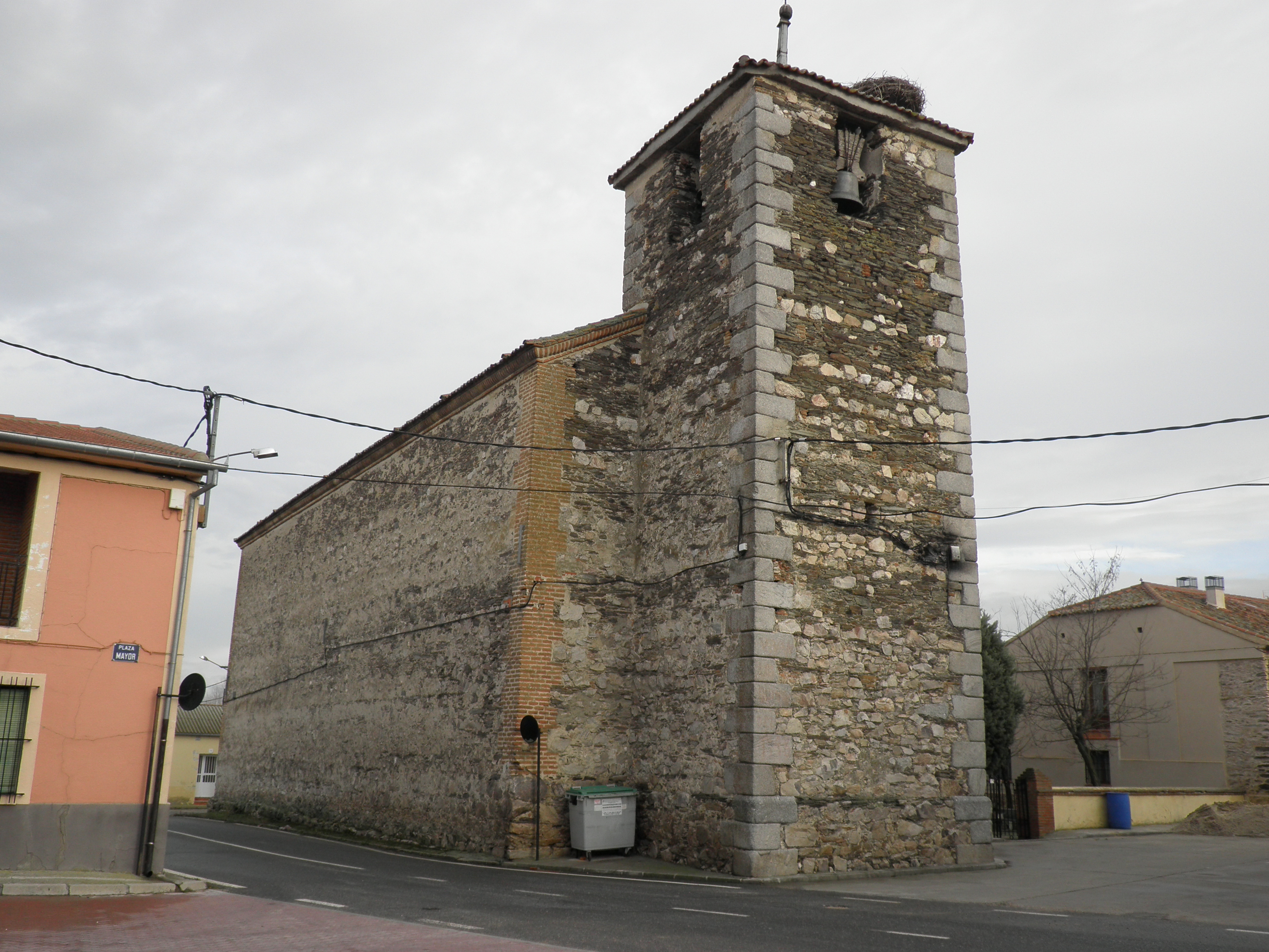 Parish church of Melque de Cercos, in Segovia province, Spain.